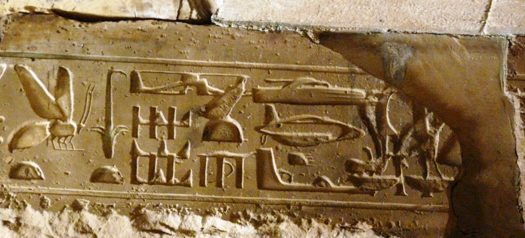 Pareidolia. Hieroglyphs seemingly showing modern aircraft and vehicles depicted on a riser in a temple in Abydos Egypt.